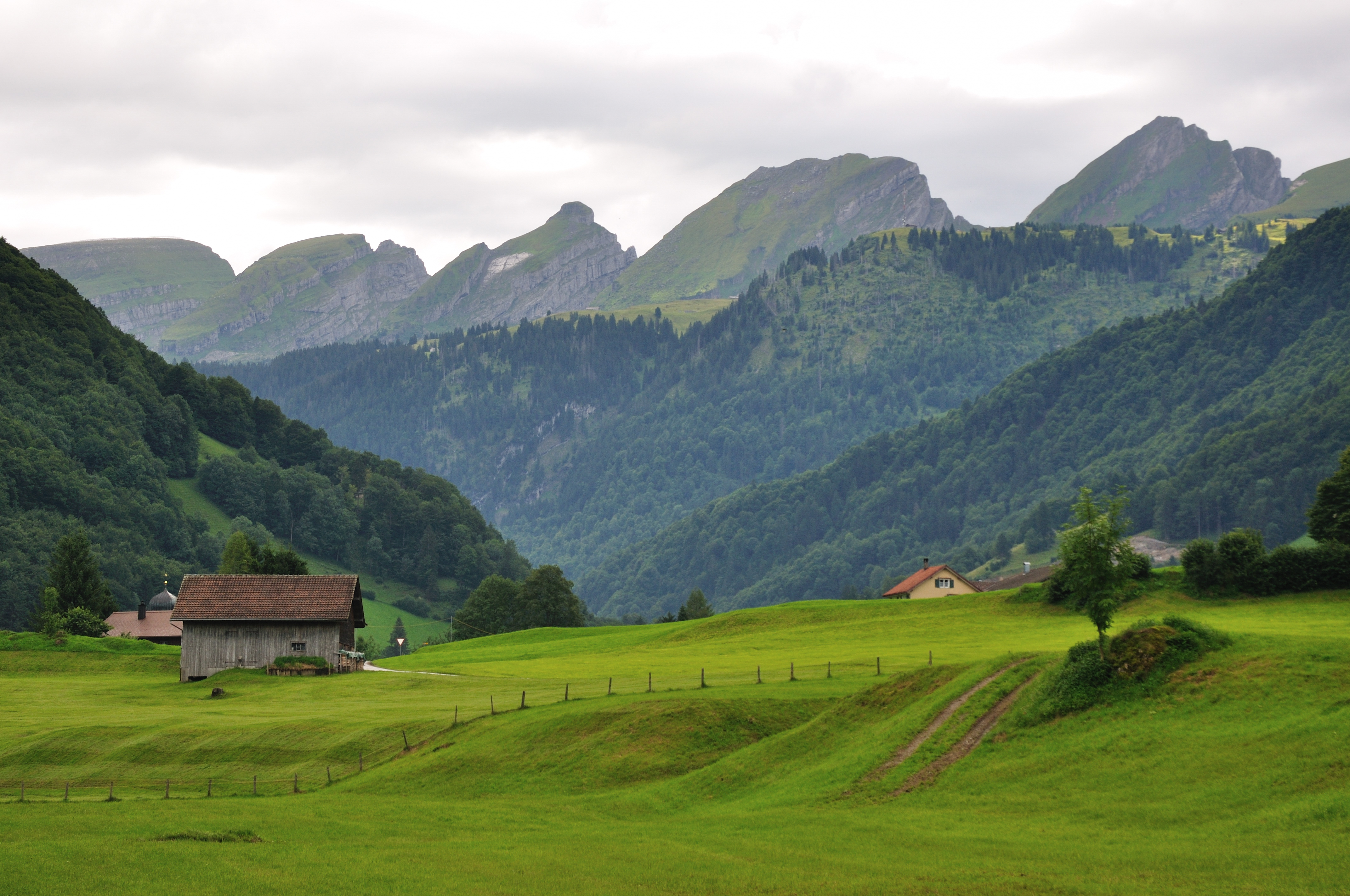 Switzerland, Canton of St. Gallen, hike along the river Thur